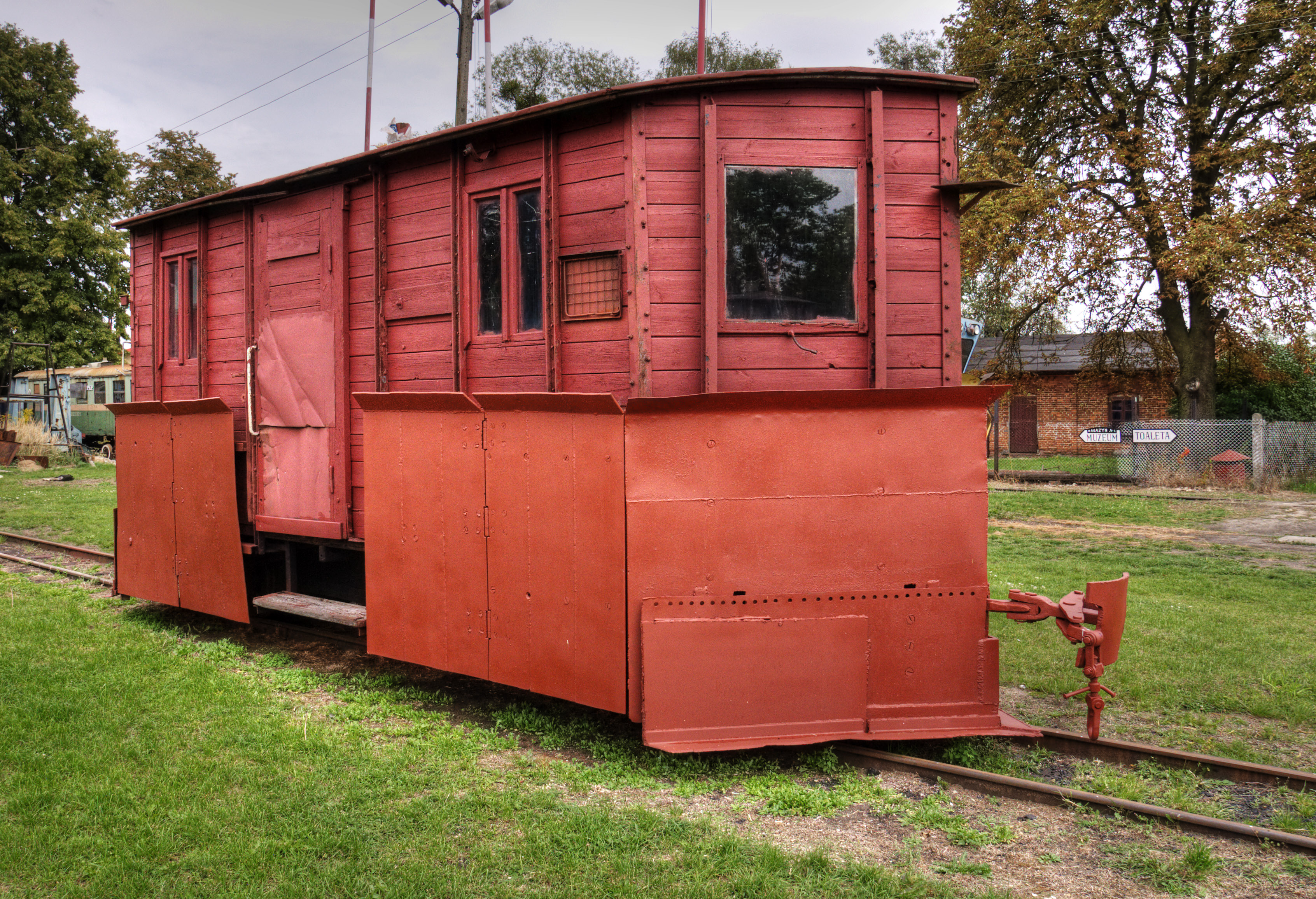 Rogów railway museum